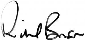 Richard Branson signature